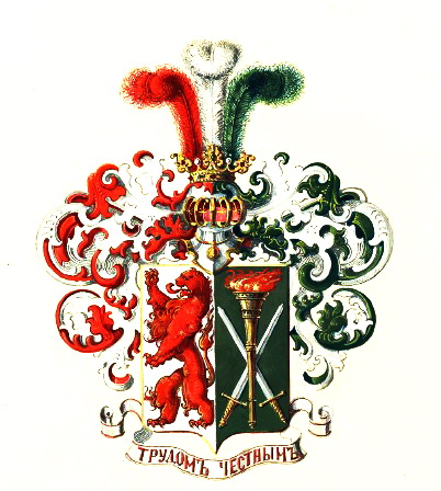 Coat of Arms of family Minkov